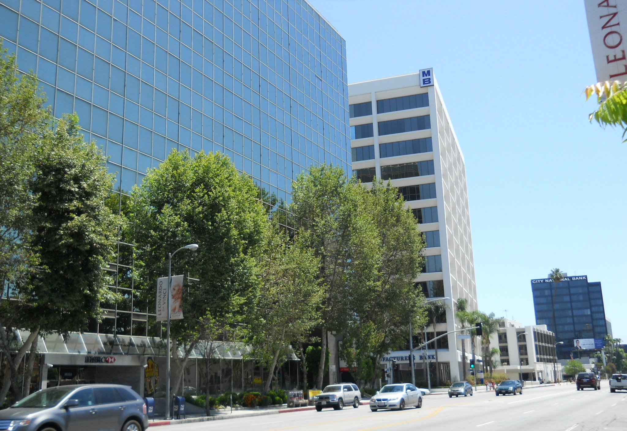 Financial Institutions, Ventura Boulevard, Encino, Los Angeles, California